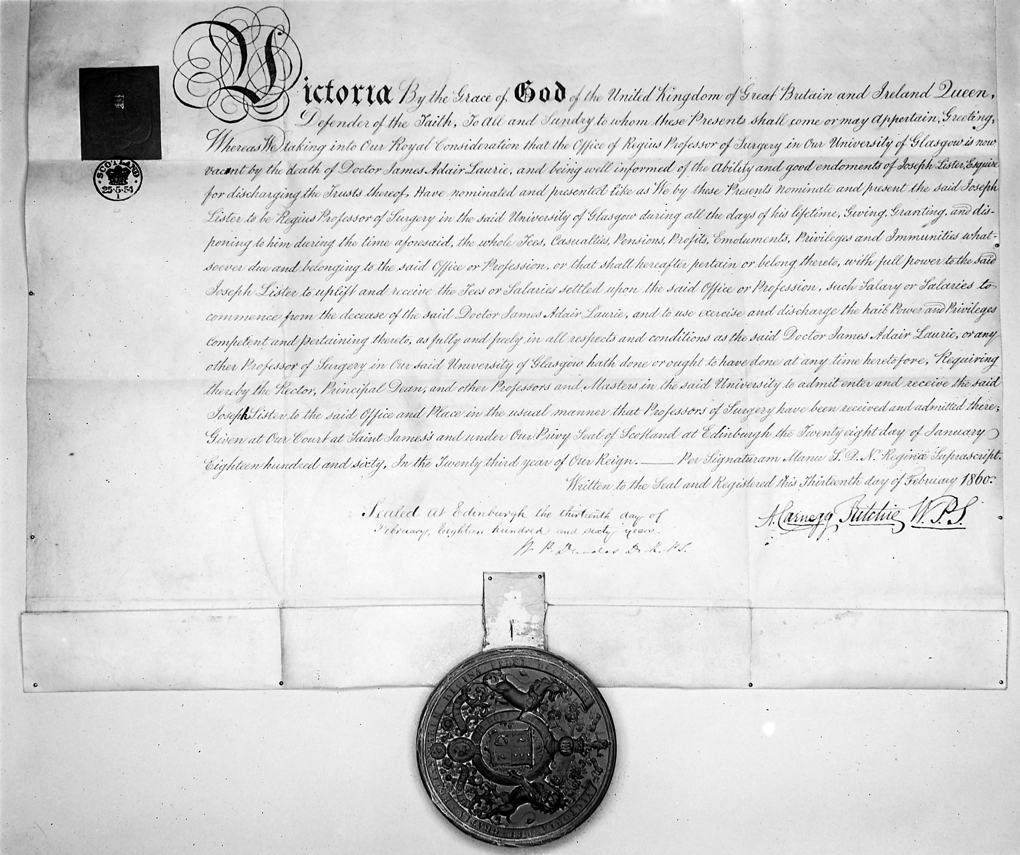 Lord Lister's Diploma of appointment as Regius Professor of Surgery at the University of Glasgow, appointed by Queen Victoria. Archives & Manuscripts Keywords: Joseph Lister; Victoria